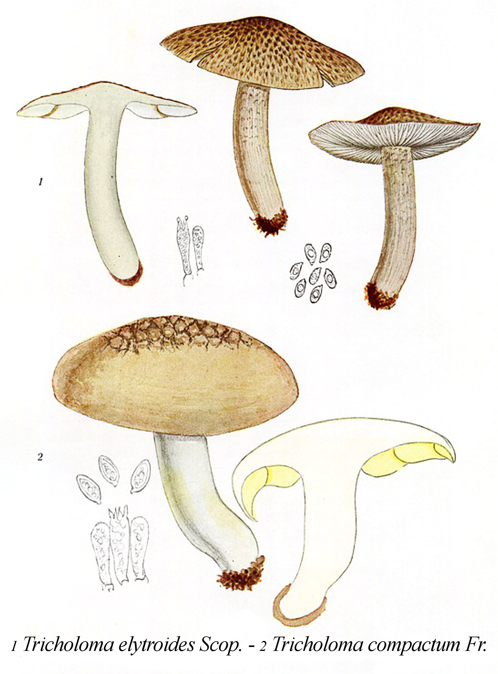 Giacomo Bresadola: Iconographia Mycologica Vol. 2 Tab. 84: Latin Description by the author. Tricholoma elytroides (= Porpoloma elytroides), Tricholoma compactum (= Leucopaxillus compactus)